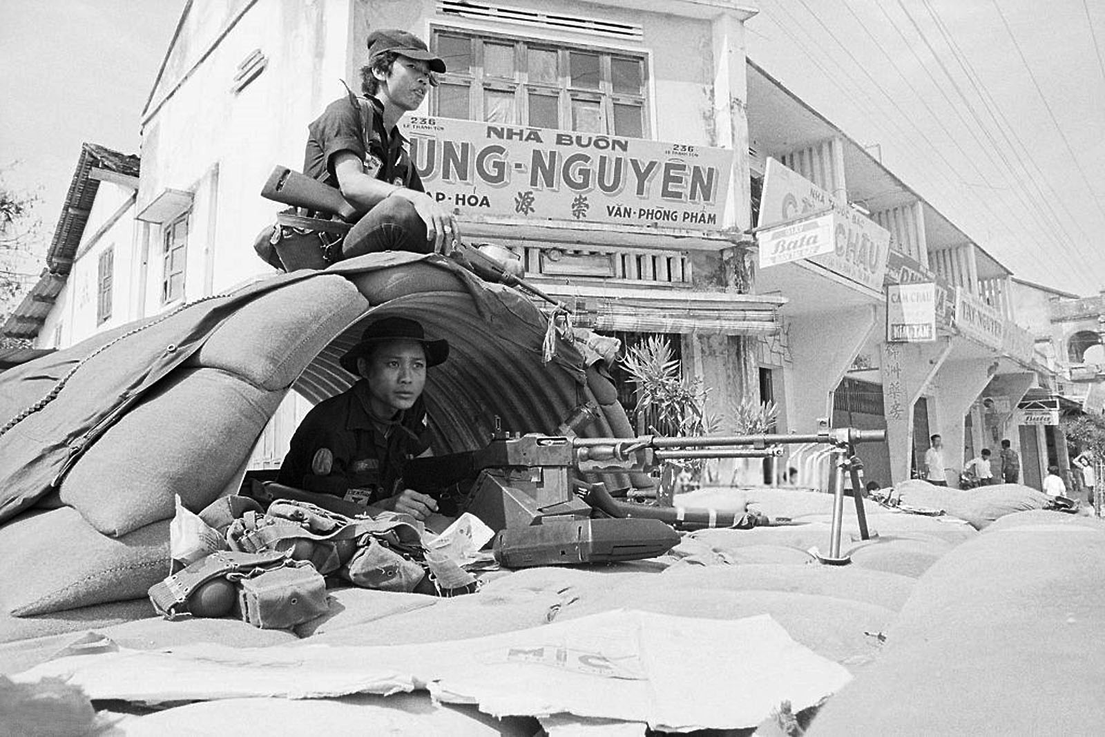 South Vietnamese soldiers man their weapons in a sandbag bunker built in the middle of the street in Kontum city. The Central Highlands town is being threatened by a large force of North Vietnamese troops.